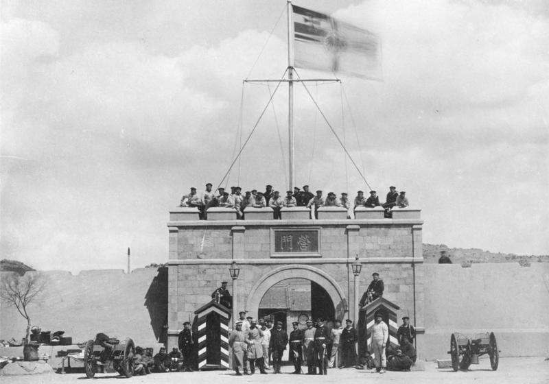 German fort at Tsingtao, China Factual corrections and alternative descriptions are encouraged separately from the original description. Additionally errors can be reported at this page to inform the Bundesarchiv. Original historic description: China, Tsingtau Hauptthor des Artillerielagers mit Offiziersgruppe.